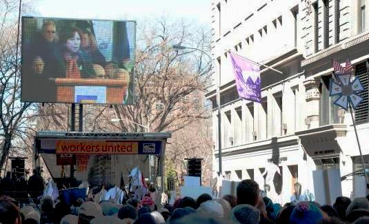 Hilda Solis, the Secretary of Labor of the United States, speaks at the Triangle Shirtwaist Fire Centennial Memorial on March 25, 2011 at the site of the fire, the Brown Building, seen at the far right.